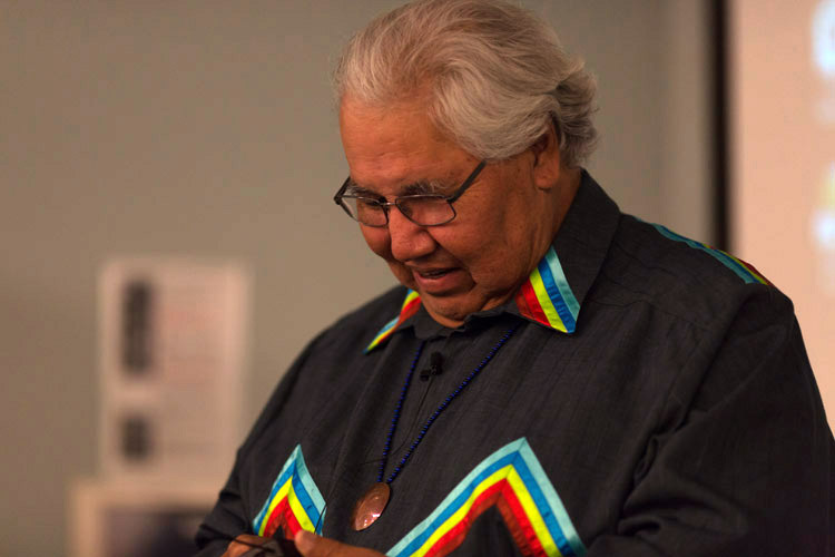 Murray Sinclair during opening keynote of the Shingwauk 2015 Gathering. Photograph taken during is address to survivors.